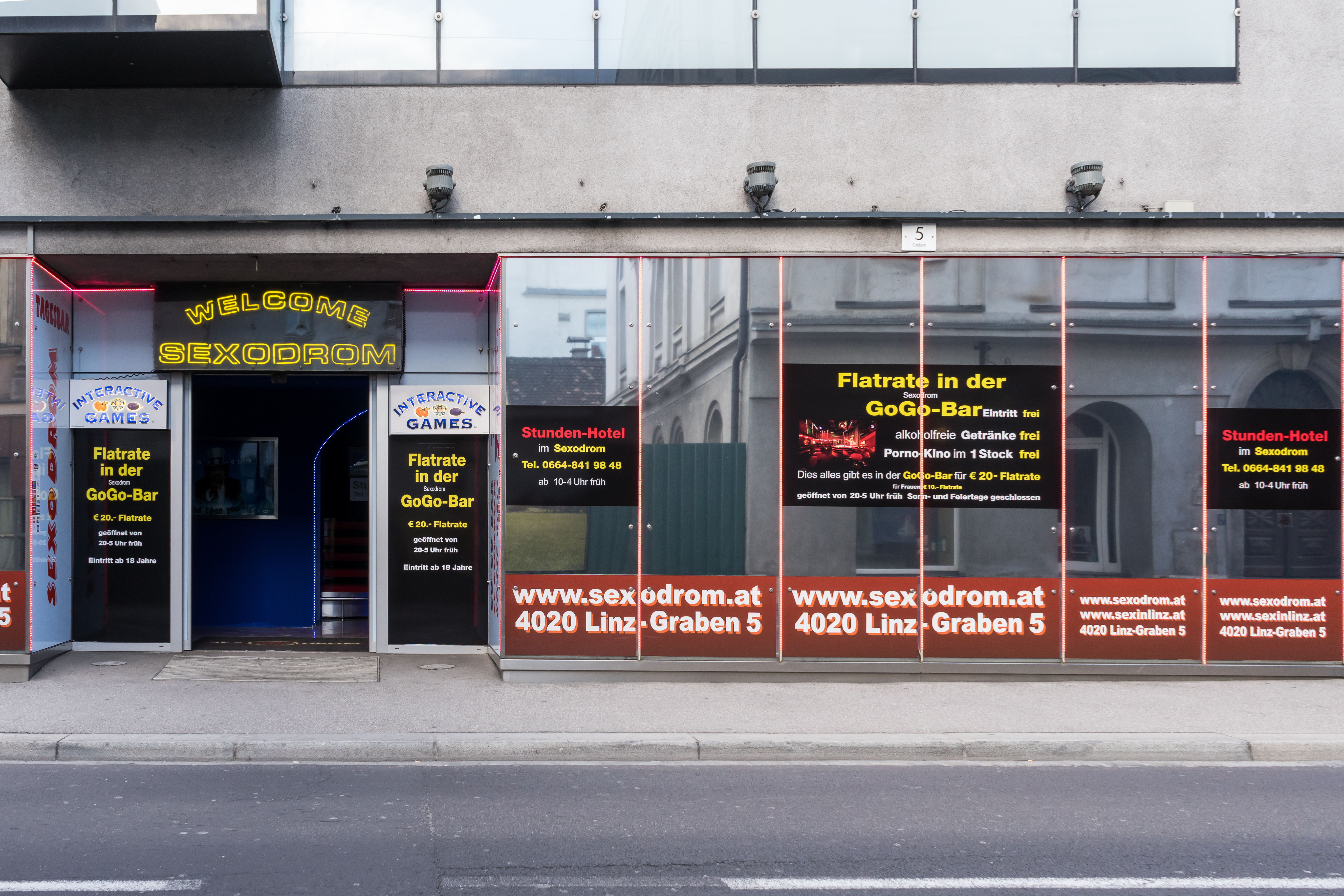 Sexodrom in Linz, Austria. The blue wall behind the entrance has a painting hanging on it. Dipicting its planner, Peter Stolz, in 1988. Saying "Live is a bitch, and then you die"